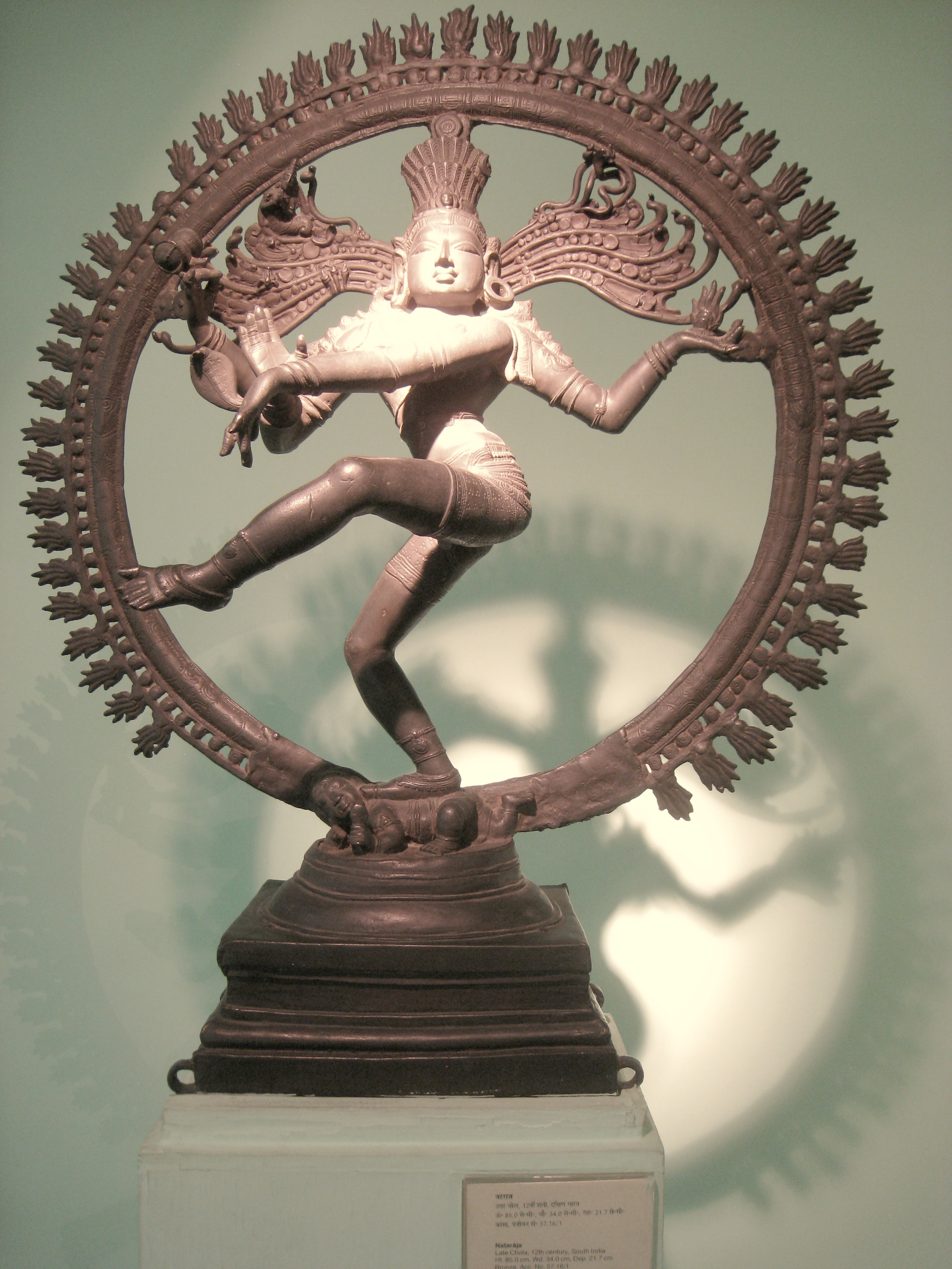 Nataraja, Late Chola, 12th century, South India. Bronze sculpture in National Museum, New Delhi, India.